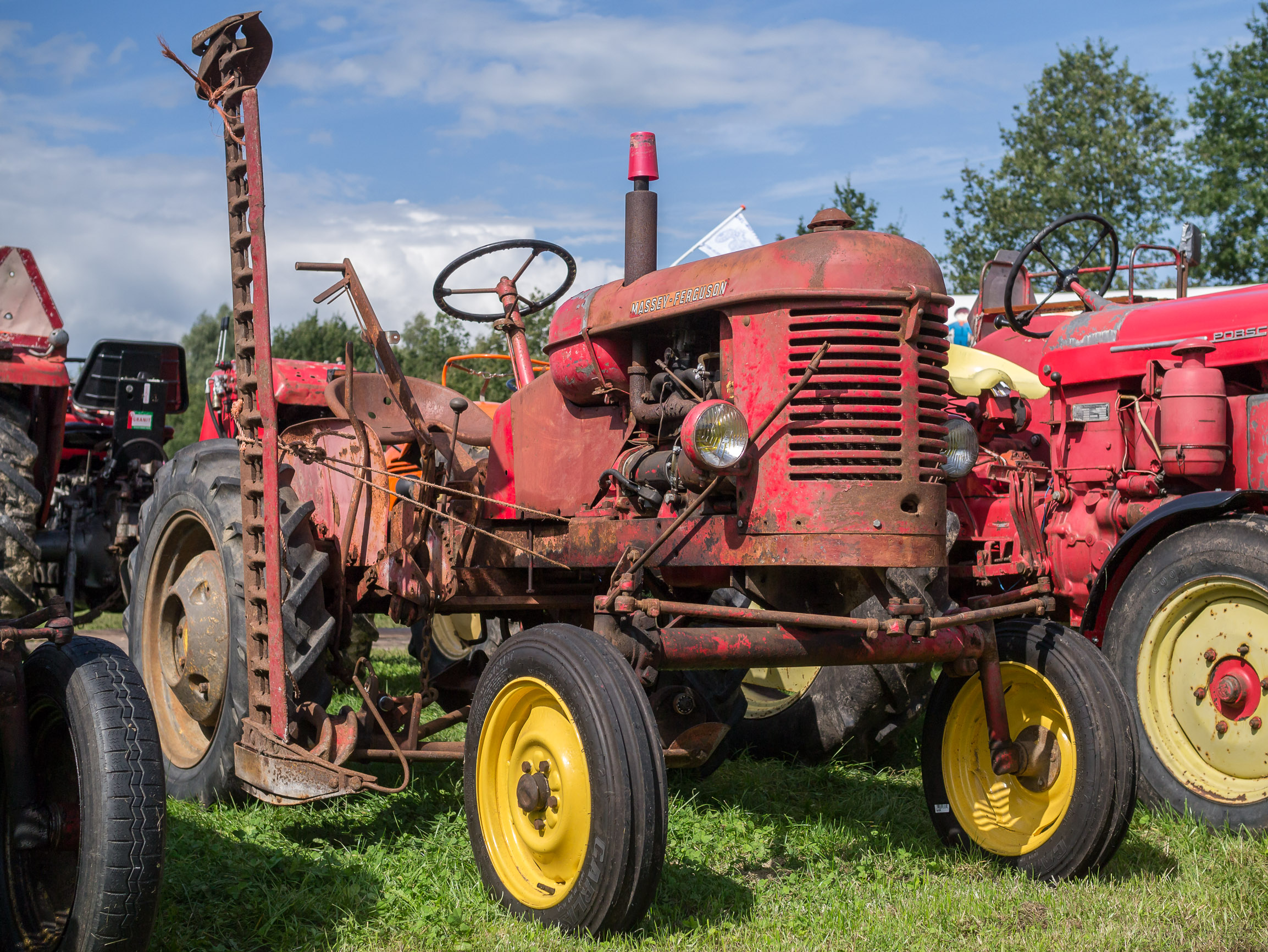 Massey Harris Pony with incorrect sticker